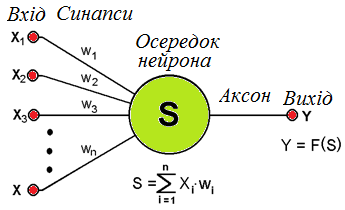 Штучний нейрон